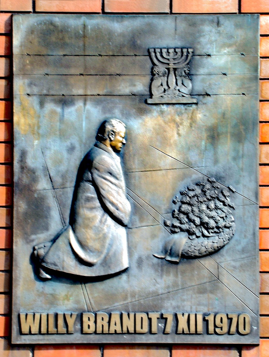 Willy Brandt memorial plate in Warsaw